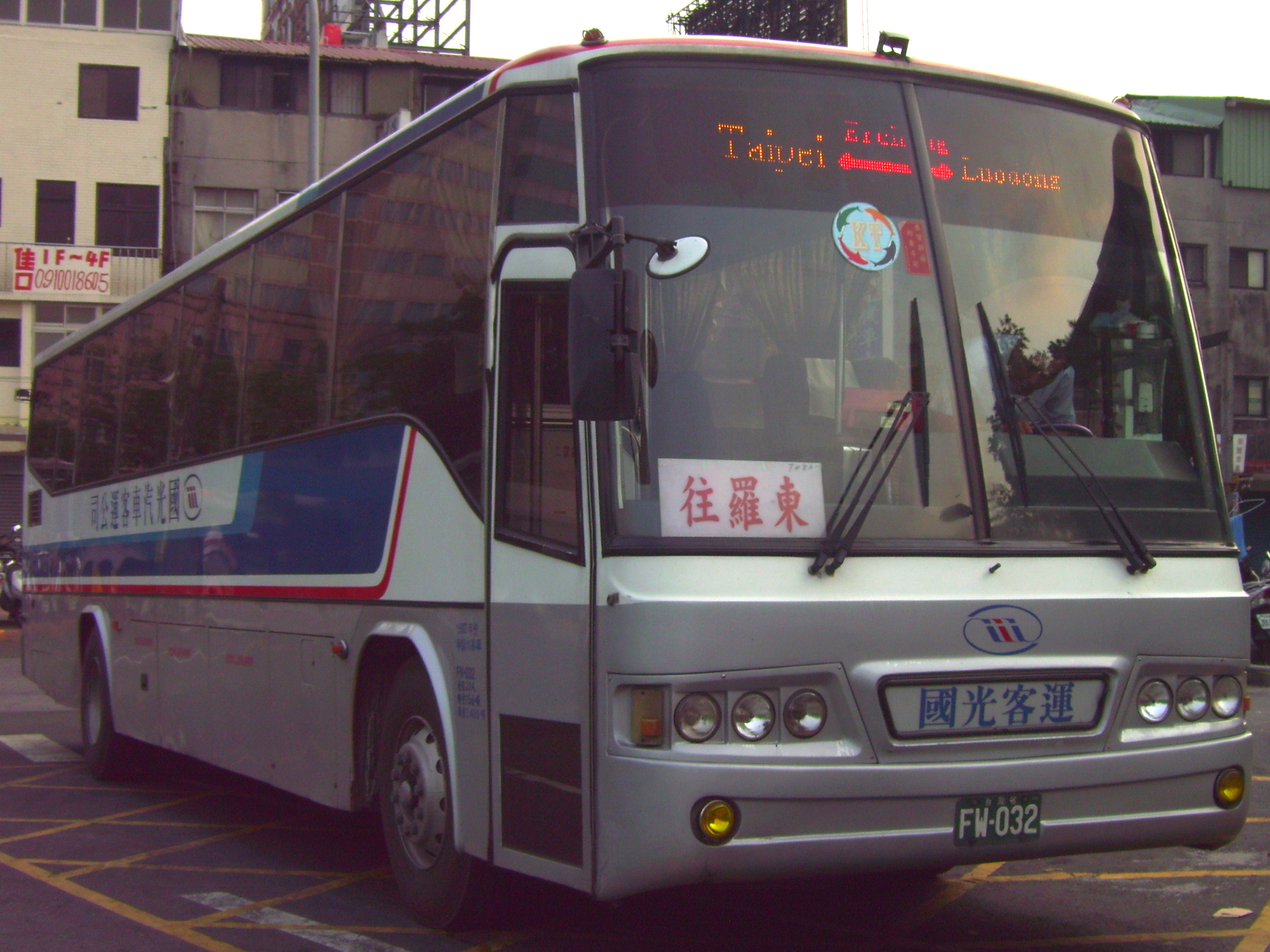 Kuo-Kuang Motor Transport Company Ltd. HINO LCM8SA Bus.